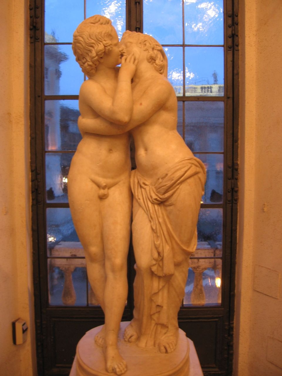 Statue of Cupid and Psyche From an original of 2nd century BC Marble, cm 125,4 Inventory: inv. MC0408